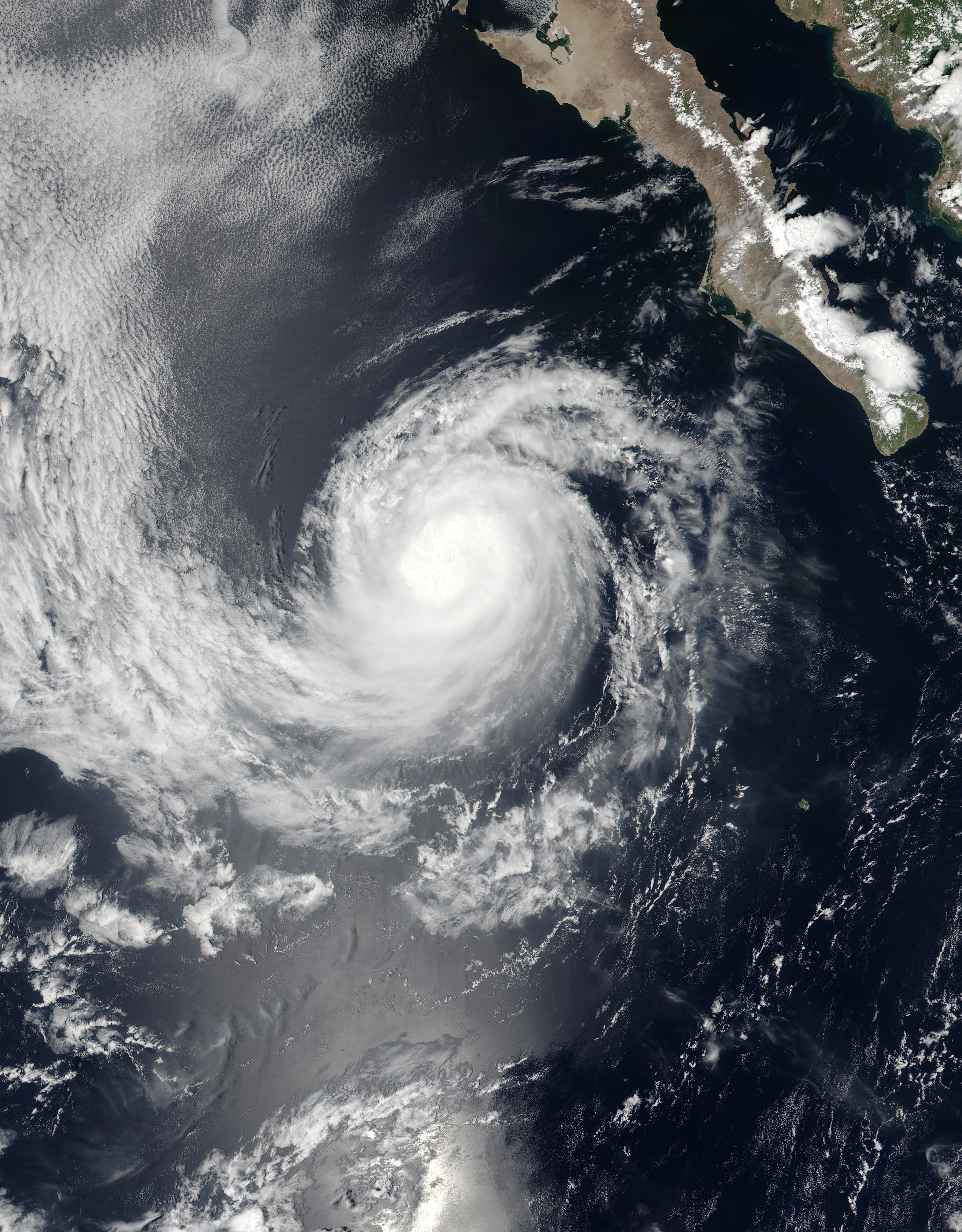 Tropical Storm Kay (12E) off Mexico